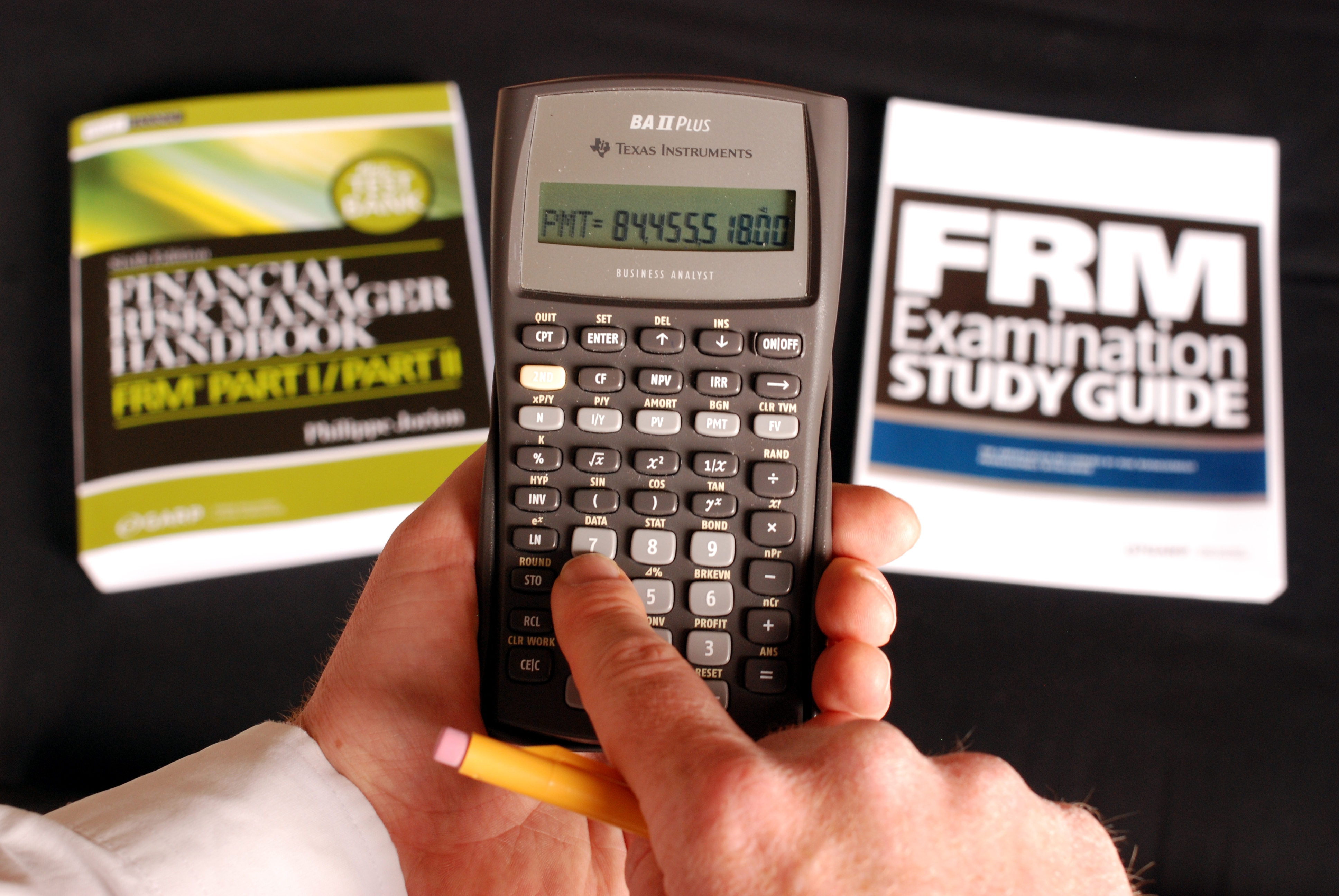 An FRM candidate demonstrates the use of the Texas Instruments BA II Plus calculator, one of a handful of models permitted to be used on the Financial Risk Manager exam.